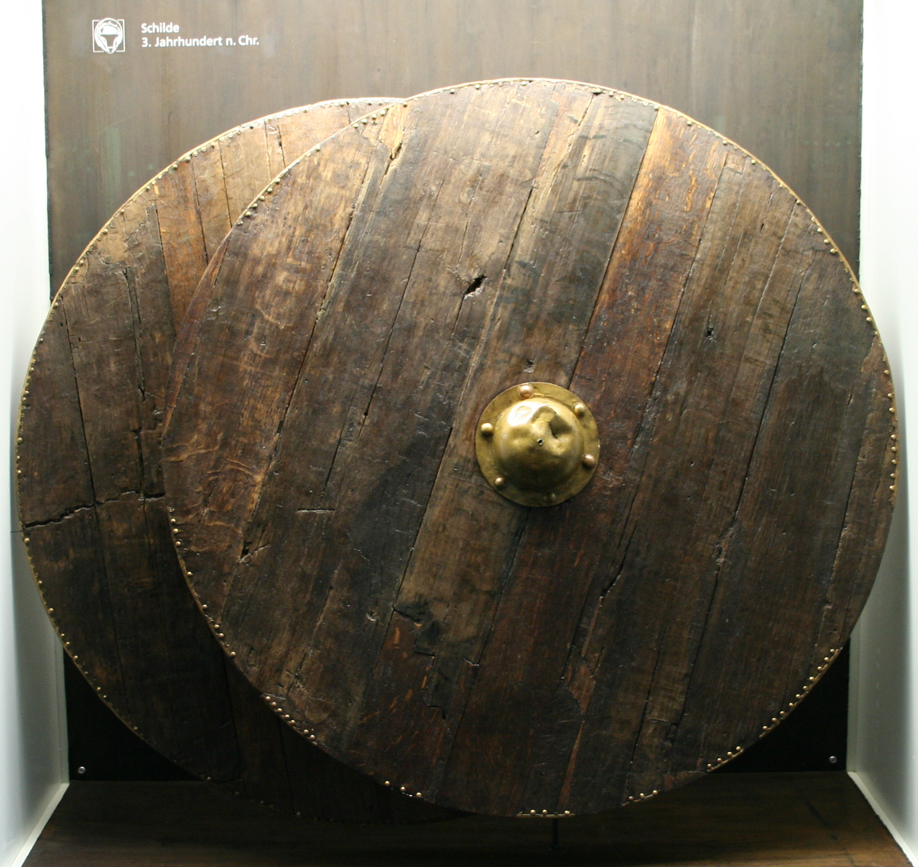 Archaeological state museum Schleswig-Holstein, Gottorf Castle